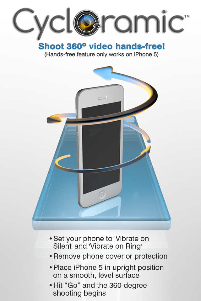 Representation of the Cycloramic app rotating the iPhone 360 degrees and description of the different steps to make it work.